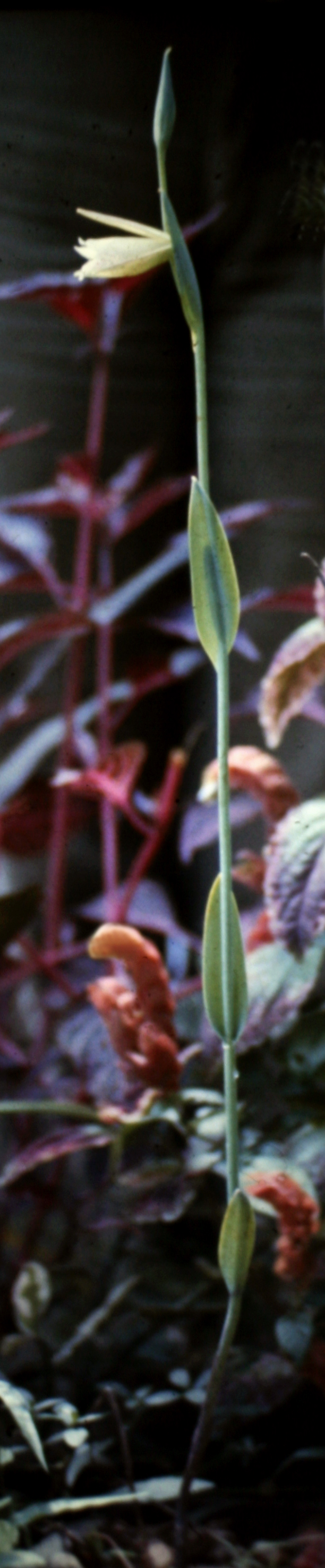 Cleistes rosea, Suriname. If you're wondering about the background: it's a savanna plant, but this photo was made in my garden in Paramaribo